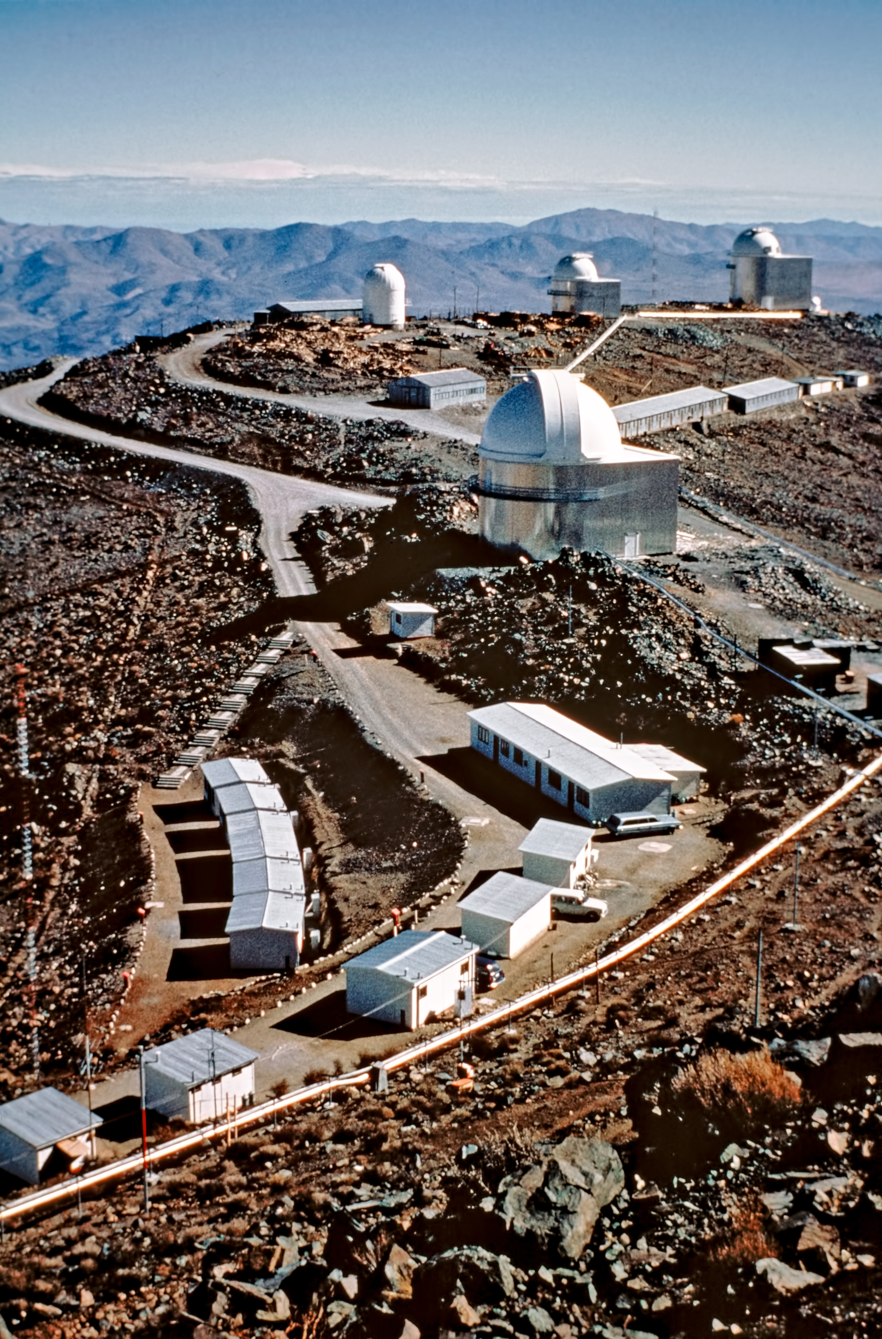 ESO turns fifty this year, and to celebrate this important anniversary, we are showing you glimpses into our history. Once a month during 2012, a special “Then and Now” comparison Picture of the Week shows how things have changed over the decades at the La Silla and Paranal observatory sites, the ESO offices in Santiago de Chile, and the Headquarters in Garching bei München, Germany. Here are two photographs of La Silla, taken in June 1968 and the present day from near the observatory’s water tanks, looking over the rest of the site. You can examine the changes with our mouseover image comparison. In the historical image, the provisional residential area is visible in the foreground. The three telescopes in the background are, from left to right, the Grand Prism Objectif (GPO, first light in 1968), the ESO 1-metre telescope (first light in 1966), and the ESO 1.5-metre telescope (first light in 1968). These three telescopes were the first at La Silla. The white dome closest to the viewer is the ESO 1-metre Schmidt telescope, which began work in 1971. Today, these four domes are still present, but the first three telescopes have been decommissioned. The ESO 1-metre Schmidt is still in operation, but is now a project telescope dedicated to the LaSilla–QUEST Variability survey (see potw1201a). The present-day photograph also shows two new telescopes. The silver dome is that of the MPG/ESO 2.2-metre telescope, which has been in operation since early 1984 and is on indefinite loan to ESO from the Max-Planck-Gesellschaft. On the far left is the Danish 1.54-metre telescope, in use since 1979, which is one of several national telescopes at La Silla.